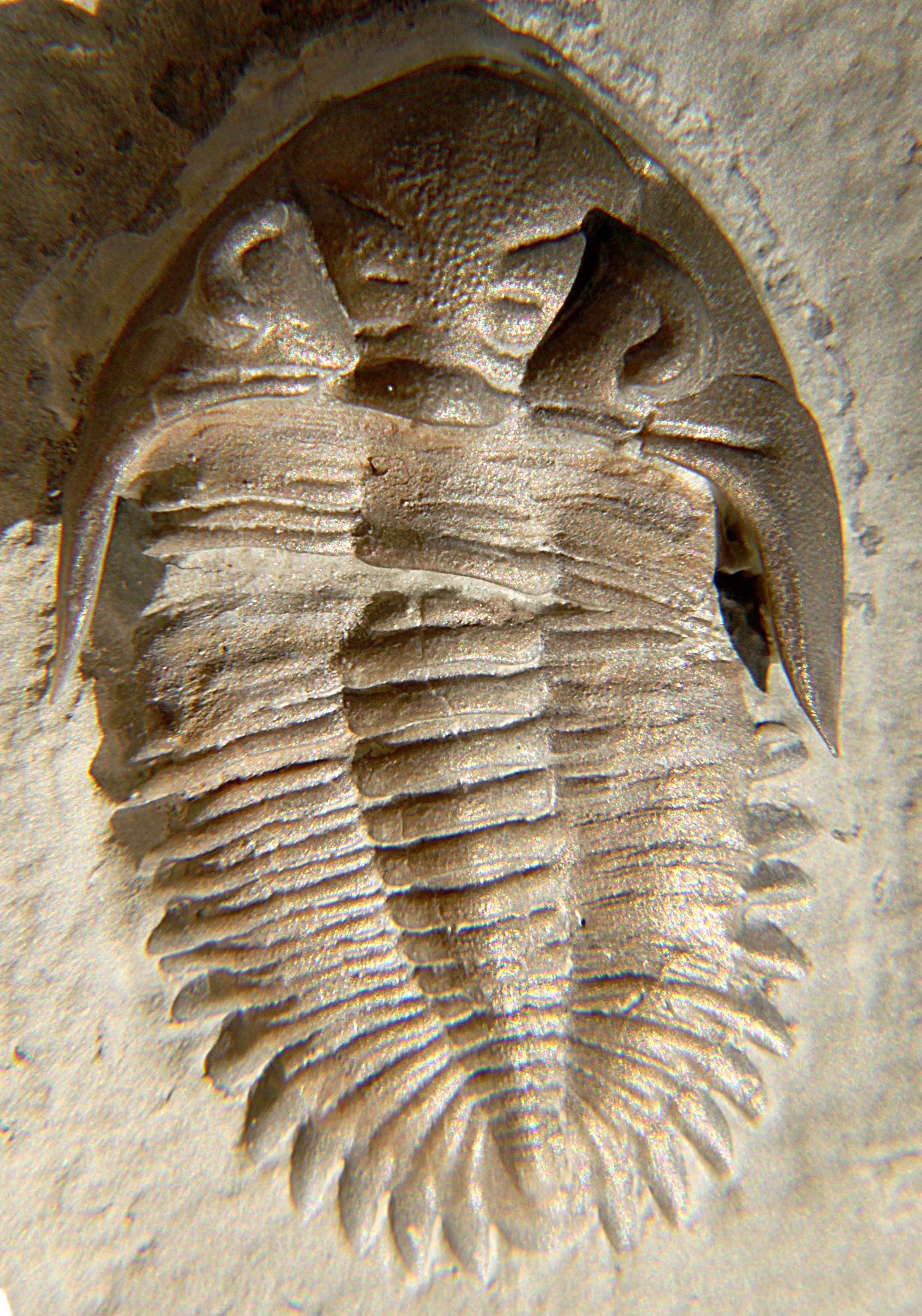 A Bellacartwrightia calliteles trilobite, Order Phacopida, Family Acastidae, 18mm, dorsal view,collected at the Penn Dixi Quarry, Window Shale Member, Moscow Formation Hamburg NY USA, from the Middle Devonian (Givetian)